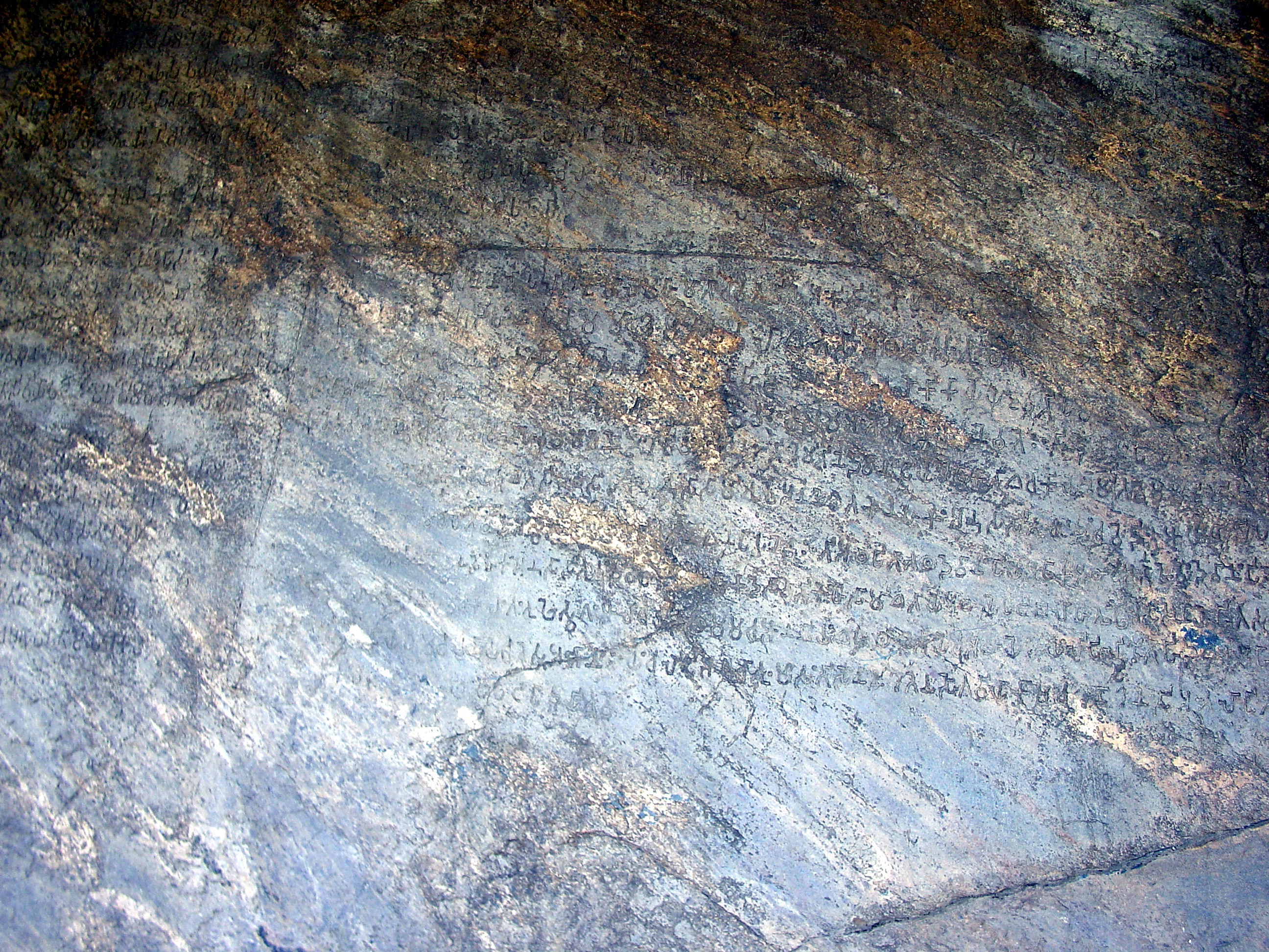 Rock Edict of Ashoka, ca. 260 BC. Dhauli, near Bhubaneshvar Shown here is part of the Dhauli inscription, which is located on the north rock face (under a small overhang) below the elephant sculpture. Ashoka's rock edicts are imperial decrees; they extol the virtues of dharma (the Buddhist law), and exhort his subjects and officials to behave in accordance with its precepts. They were written in Prakrit, the vernacular language, using Brahmi script, so that all could read them (that is, of course, all who could read; being royal edicts, they would also have been read aloud to assemblies of the people.) Curiously, the Buddhist faith is not explicitly mentioned by name in the inscriptions; no doubt this is a concession to the sensibilities of Ashoka's Hindu subjects. In a similar vein, Edict XIII - which elaborates the many killings and injuries that Ashoka's conquest inflicted on this region - was omitted from the Dhauli monument.